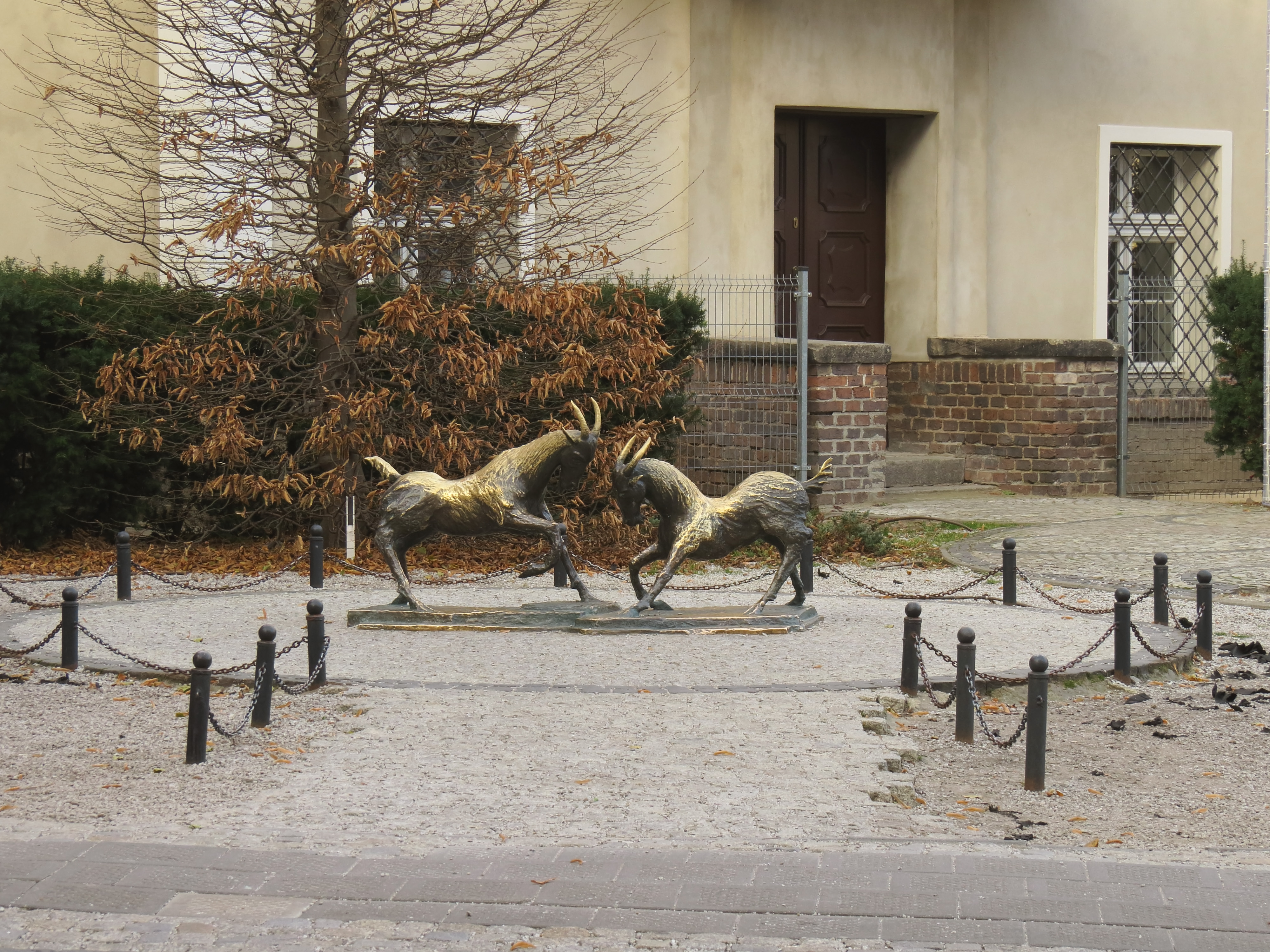 Koziołki sculpture in Koltgiacki square, Poznań